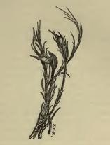 The tineina of southern Europe: Caryocolum leucomelanella